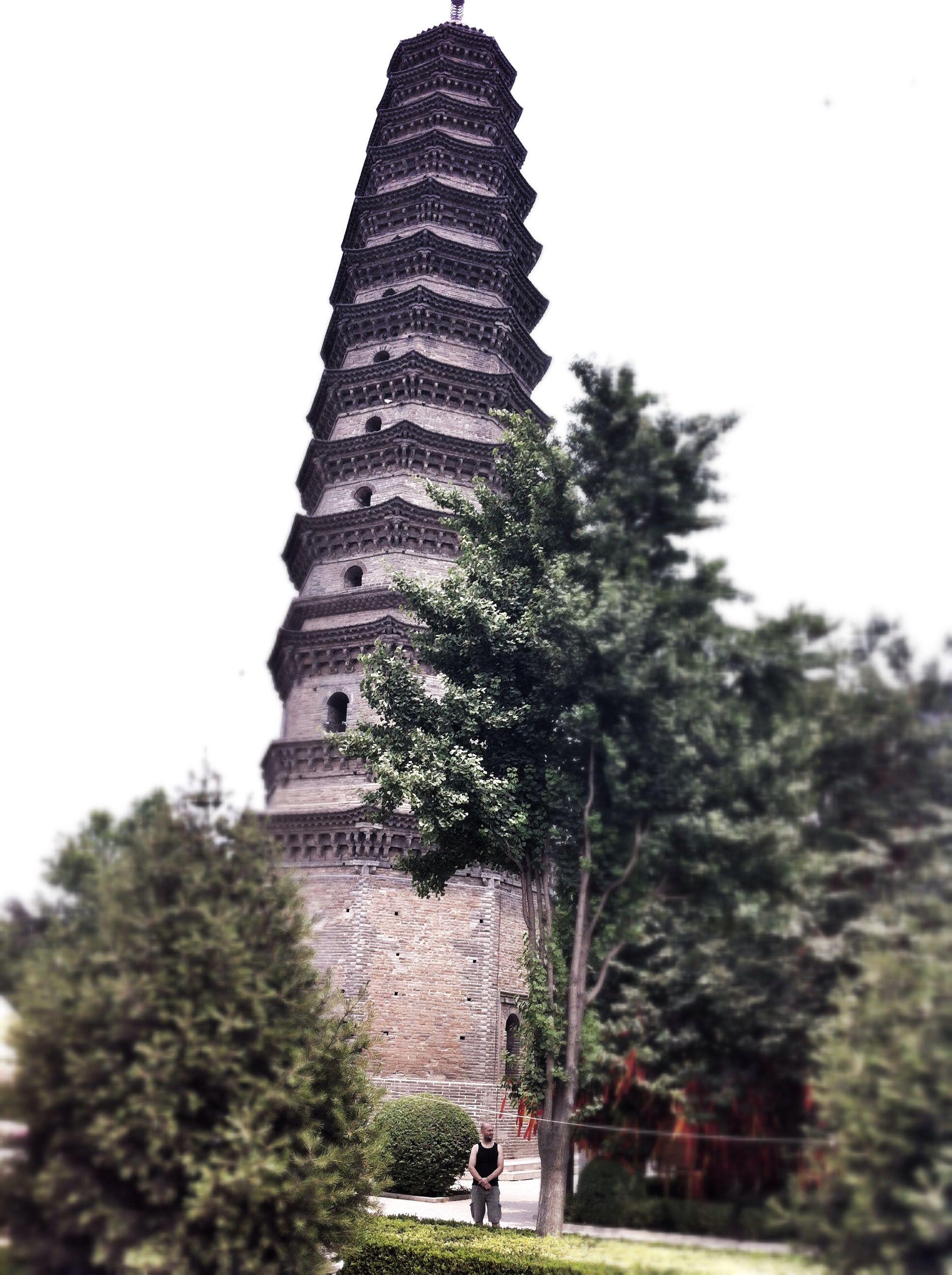 Pagoda in Wenshang